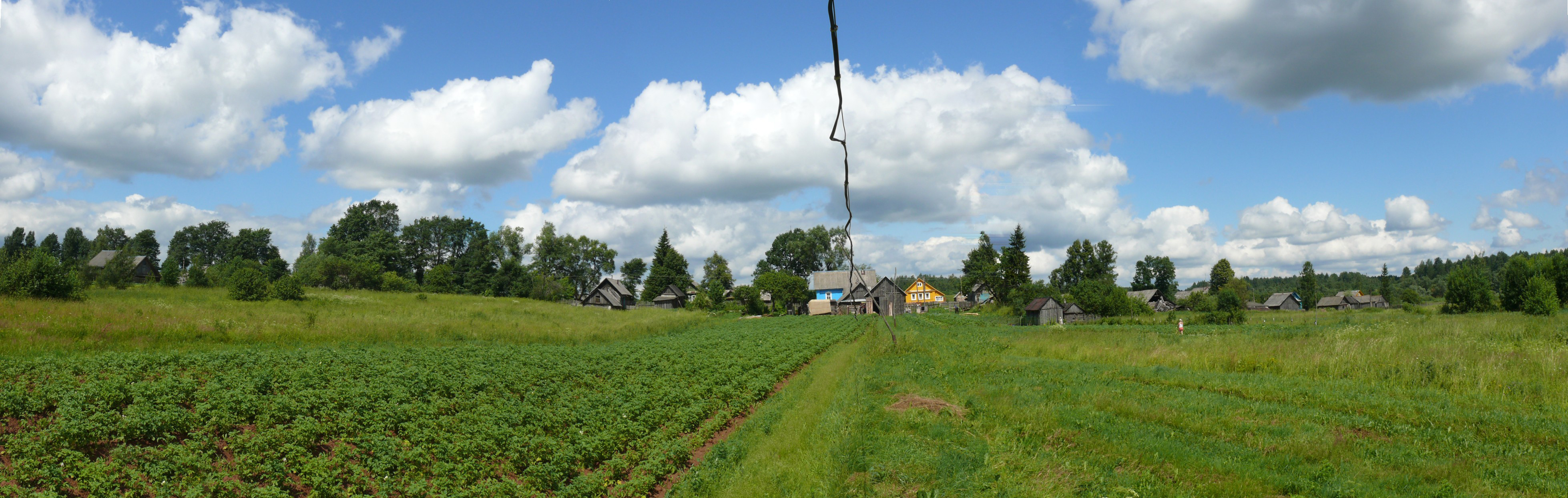 Losytini village. Starorussky district, Novgorod oblast, Russia